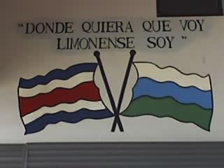 Translation: "Wherever I go, Limonense I am" Taken at the Gran Terminal de Buses in downtown Puerto Limón